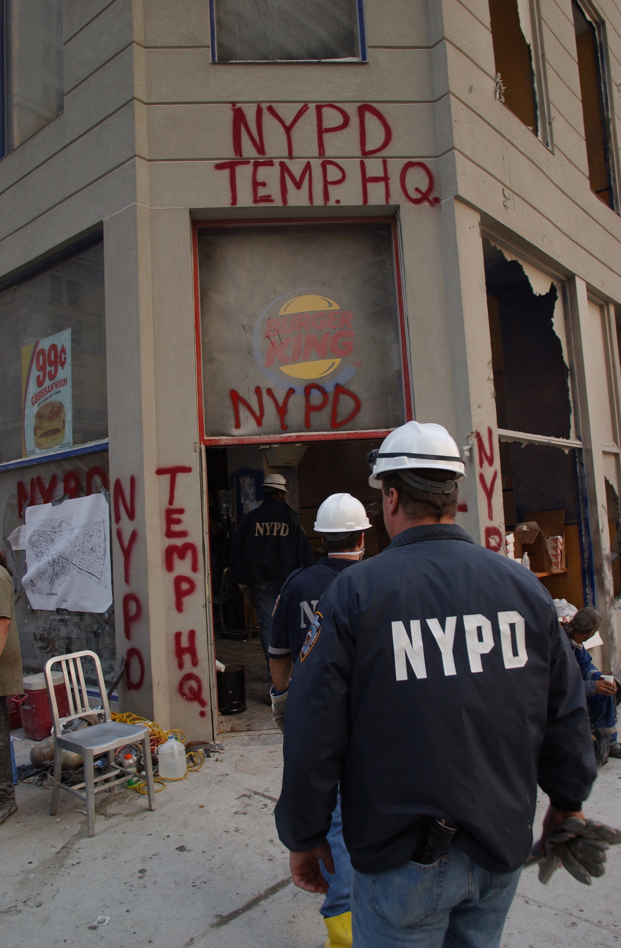 106 Liberty Street, New York, N.Y., September 13, 2001. NYPD enter their temporary headquarters one block from the World Trade Center site. Andrea Booher/FEMA photo